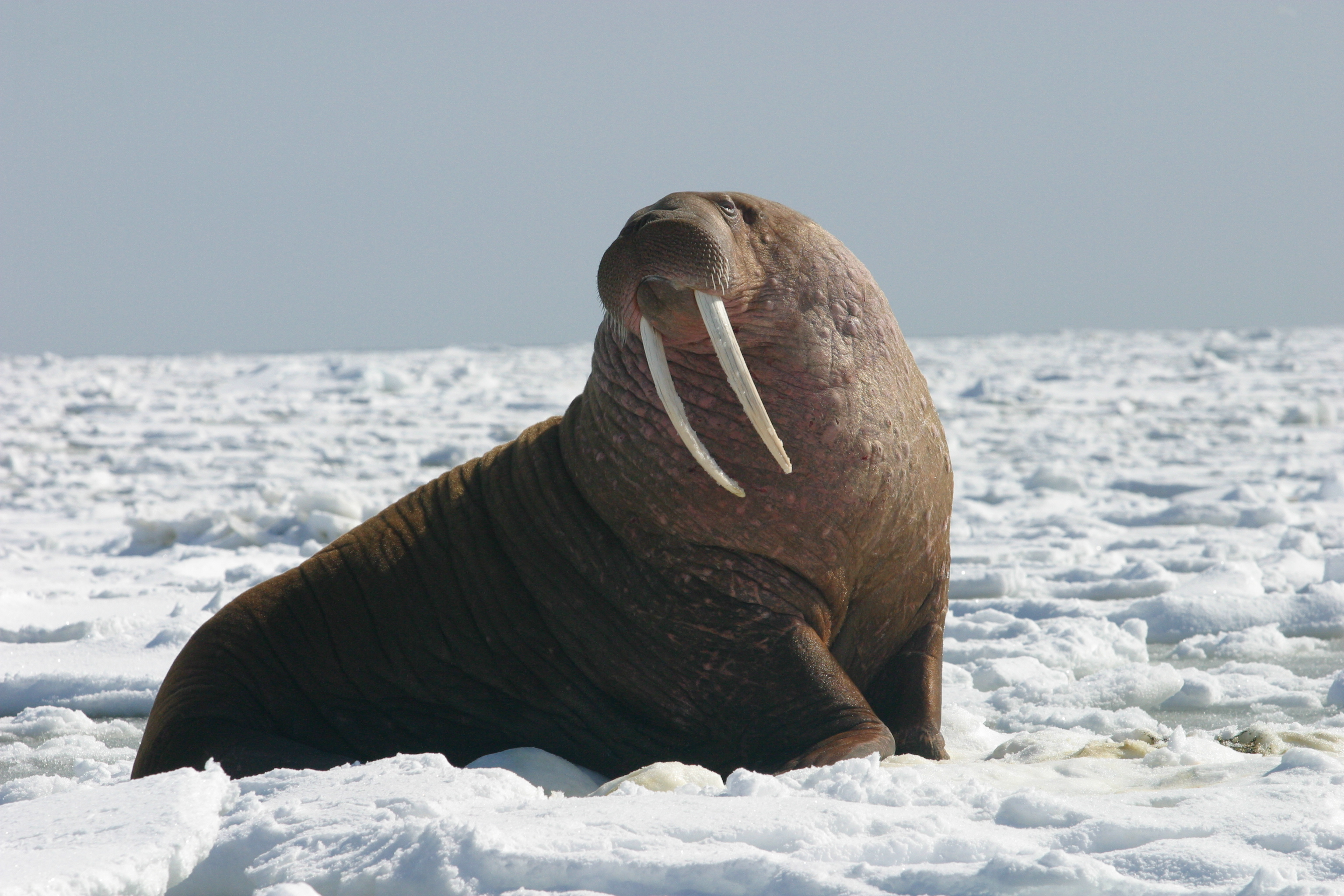 A large Pacific Walrus bull watches the camera. The adult bulls can weigh up to 3,700 pounds.